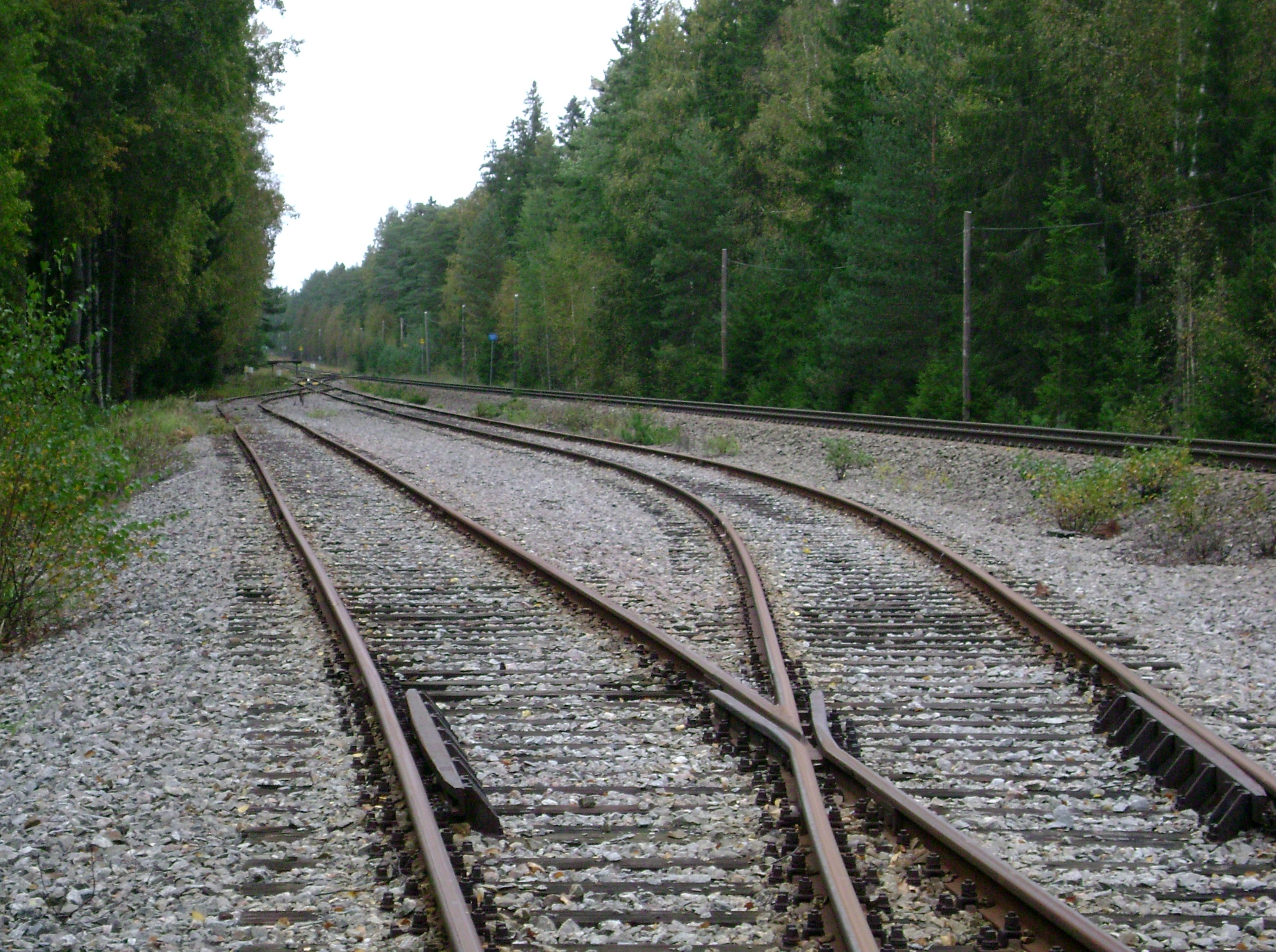 Dynamiittivaihde switch in Hanko, Finland.